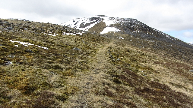 Pony path, Mullach Coire an Iubhair